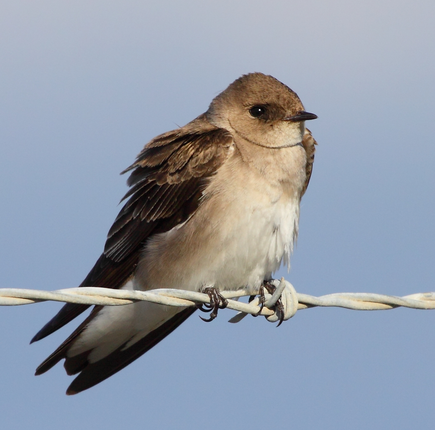 Adult Northern Rough-winged Swallow (Stelgidopteryx serripennis)